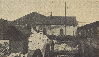 Old molding workshop and wheelset deposit, in the Barreiro railyards, in Portugal. This photograph was published by the Gazeta dos Caminhos de Ferro magazine No. 1143, of the 1st August 1935, and scanned by the Hemeroteca Municipal de Lisboa.